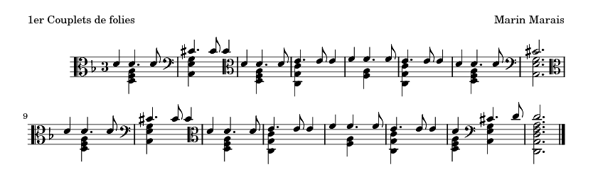 First couplet of Marin Marais' "Folies d'Espagne" for viola da gamba and figured bass